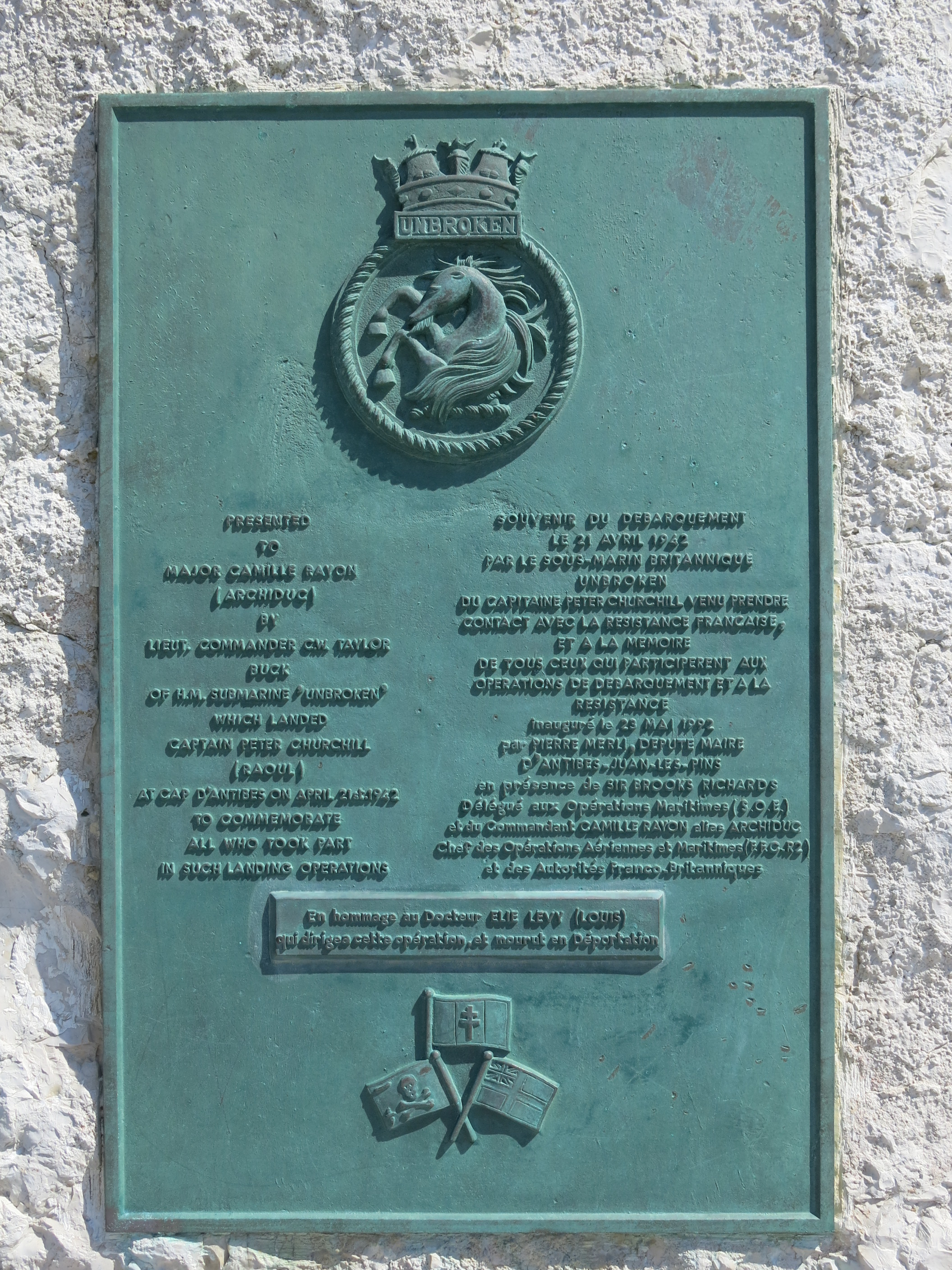 Monument in memory of the arrival of the English officer Peter Churchil from the submarine HMS Unbroken to contact the French Resistance. Antibes (Alpes-Maritimes, France).